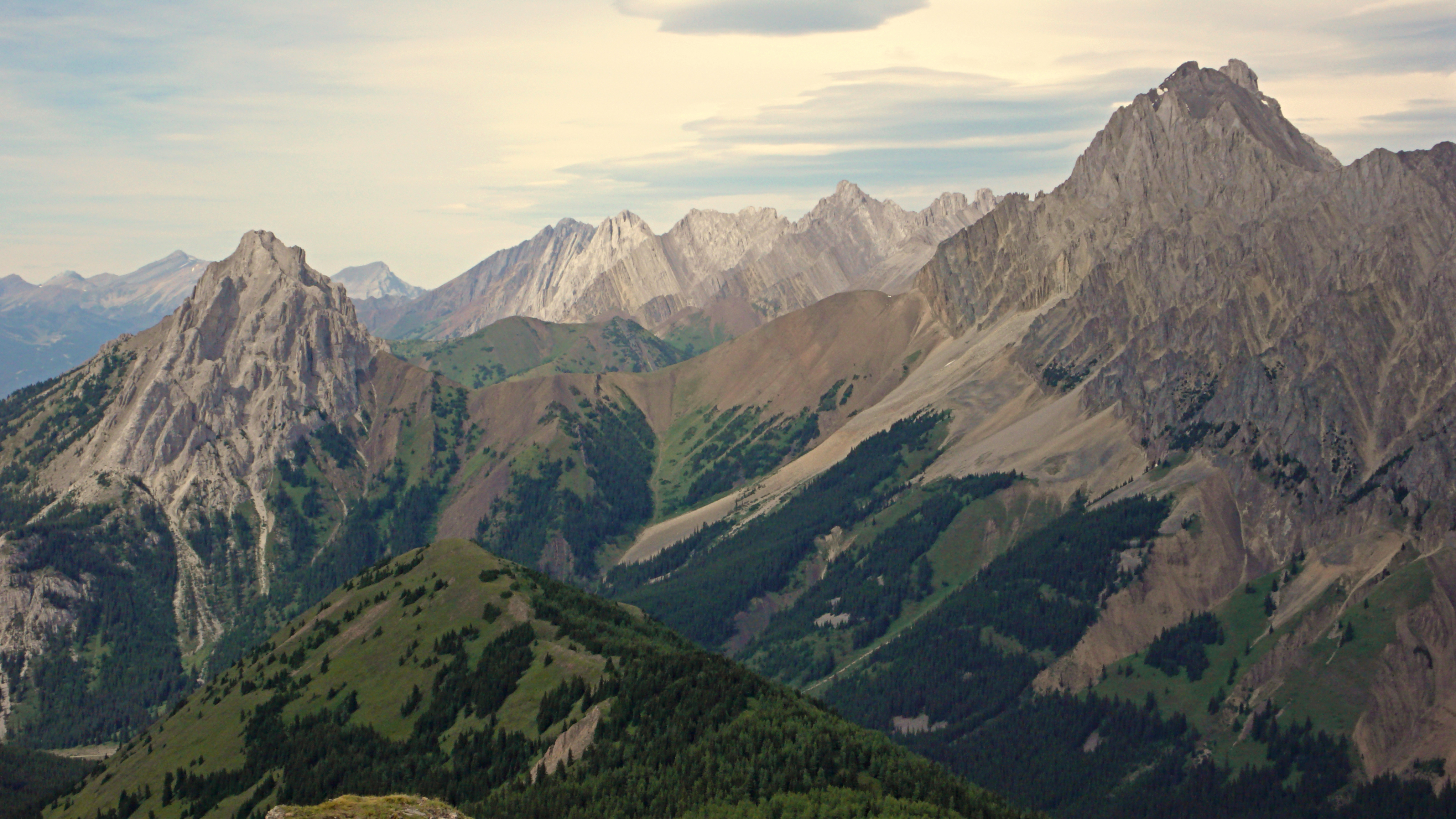 Elpoca Mountain (right) and Gap Mountain (left) of the Opal Range, Kananaskis Country, Alberta, Canada